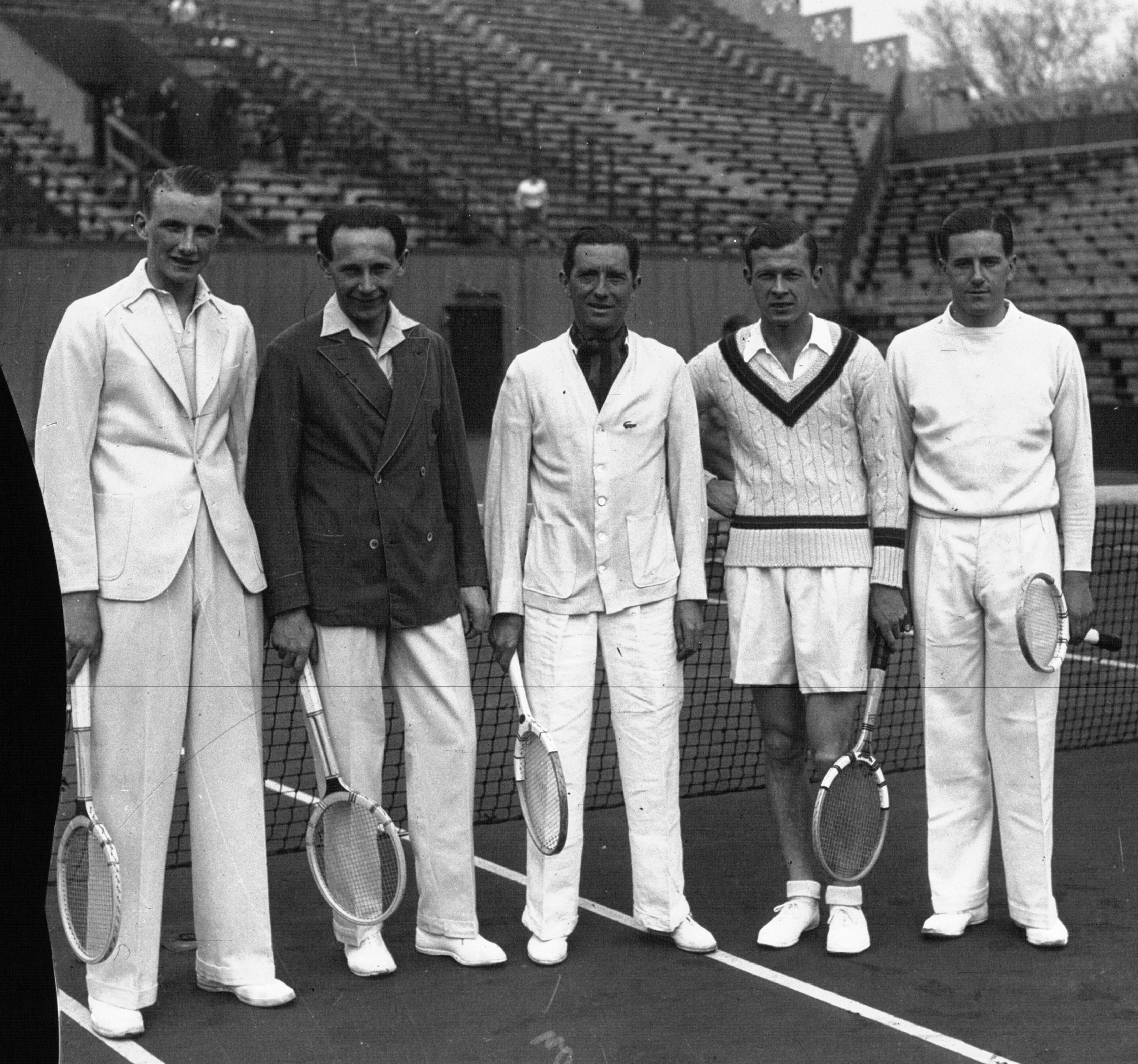 Davis Cup, French team, 1936. From left to right: Bernard Destremau, Jean Borotra, Jacques Brugnon, Christian Boussus, Marcel Bernard.